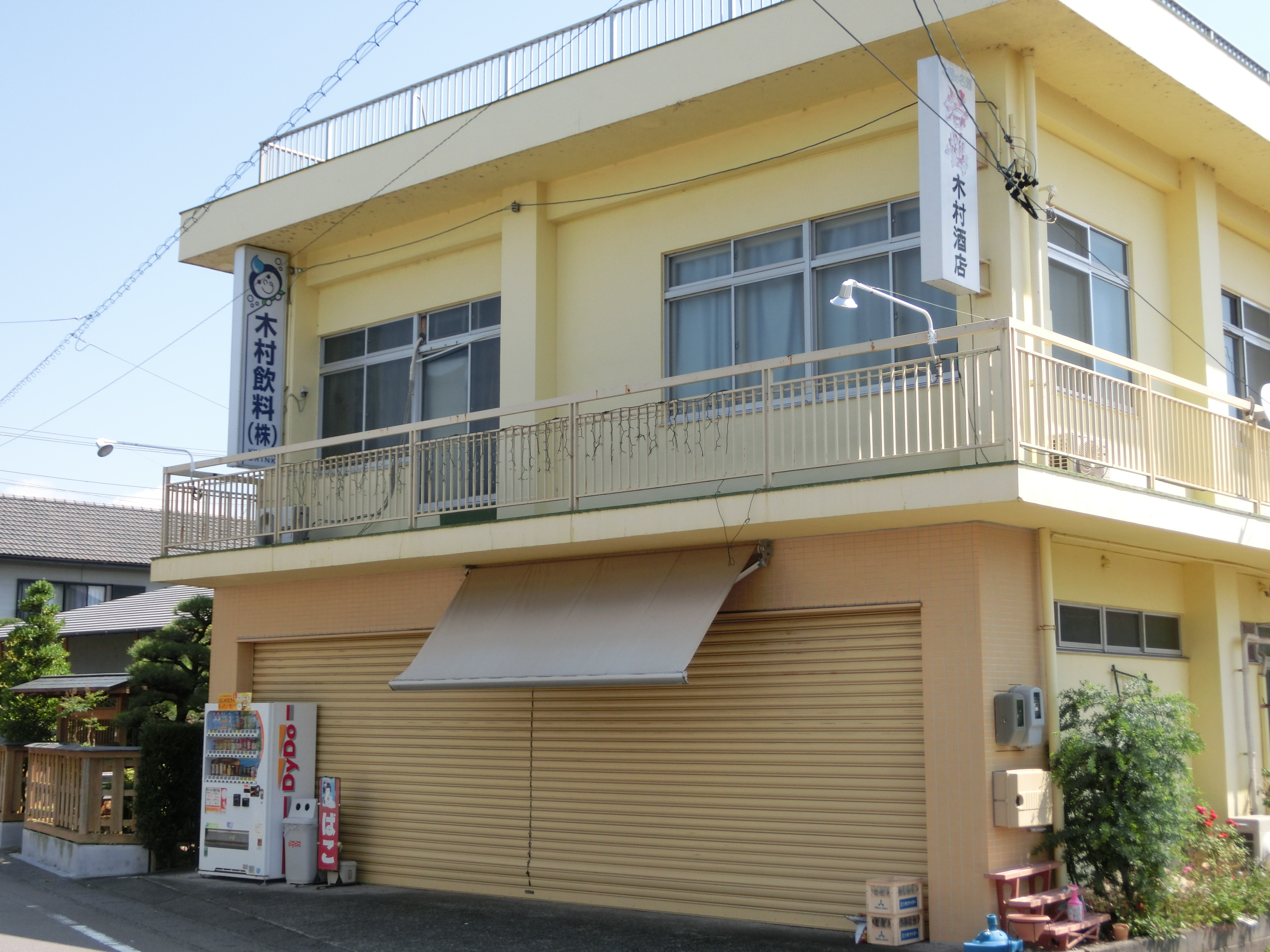 Kimura Drink Head Office